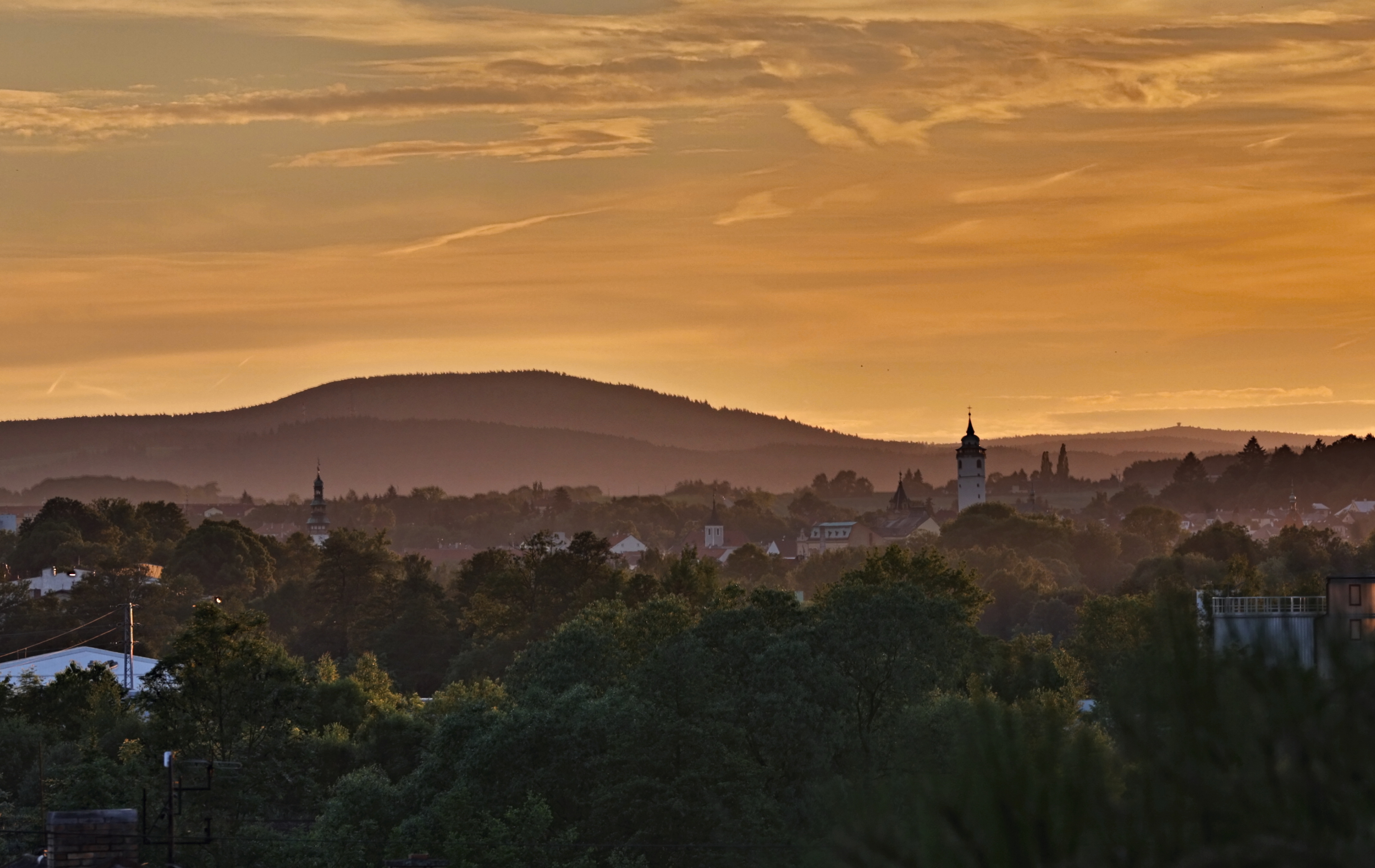 Domažlice panorama at dawn